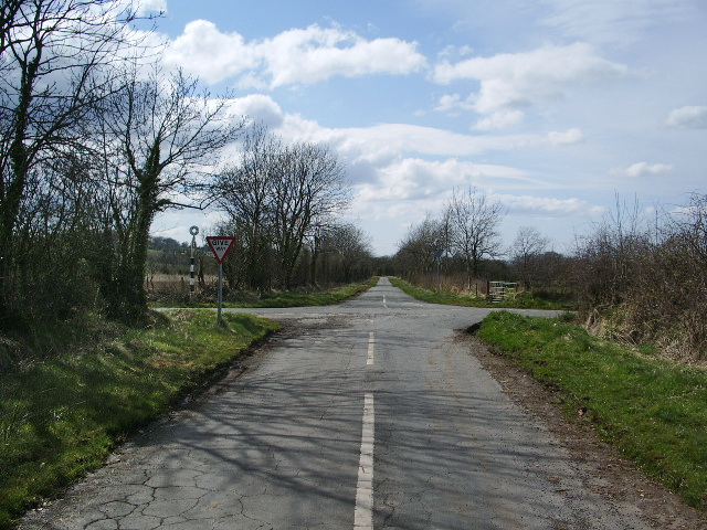 Cross roads Straight on to Mealsgate, right to Bolton New Houses and left to Sandale